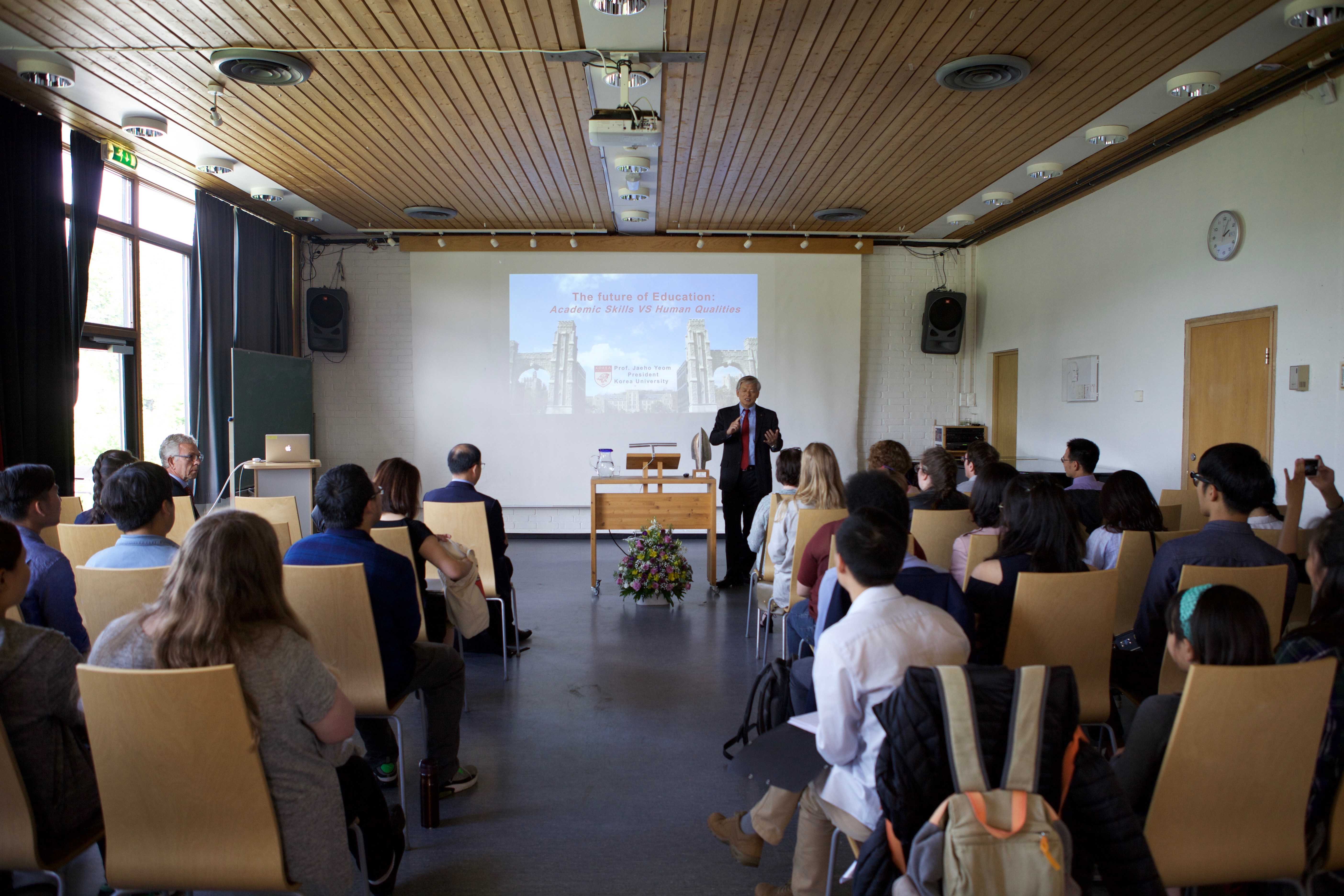 A picture of Yeom Jaeho giving a lecture at NEWDAY 2017. Also present in the photo are students and organizers of NEWDAY 2017.